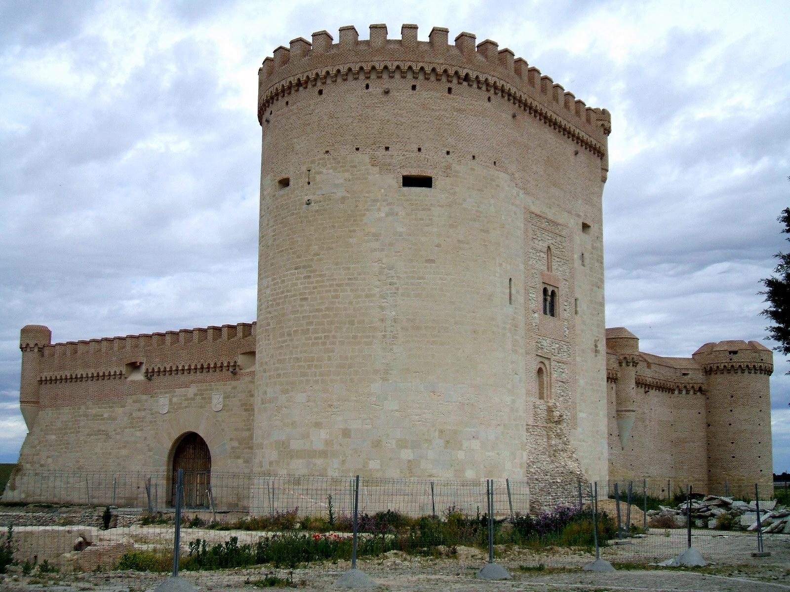 Castillo de Arévalo (Ávila, Castilla y León, España)